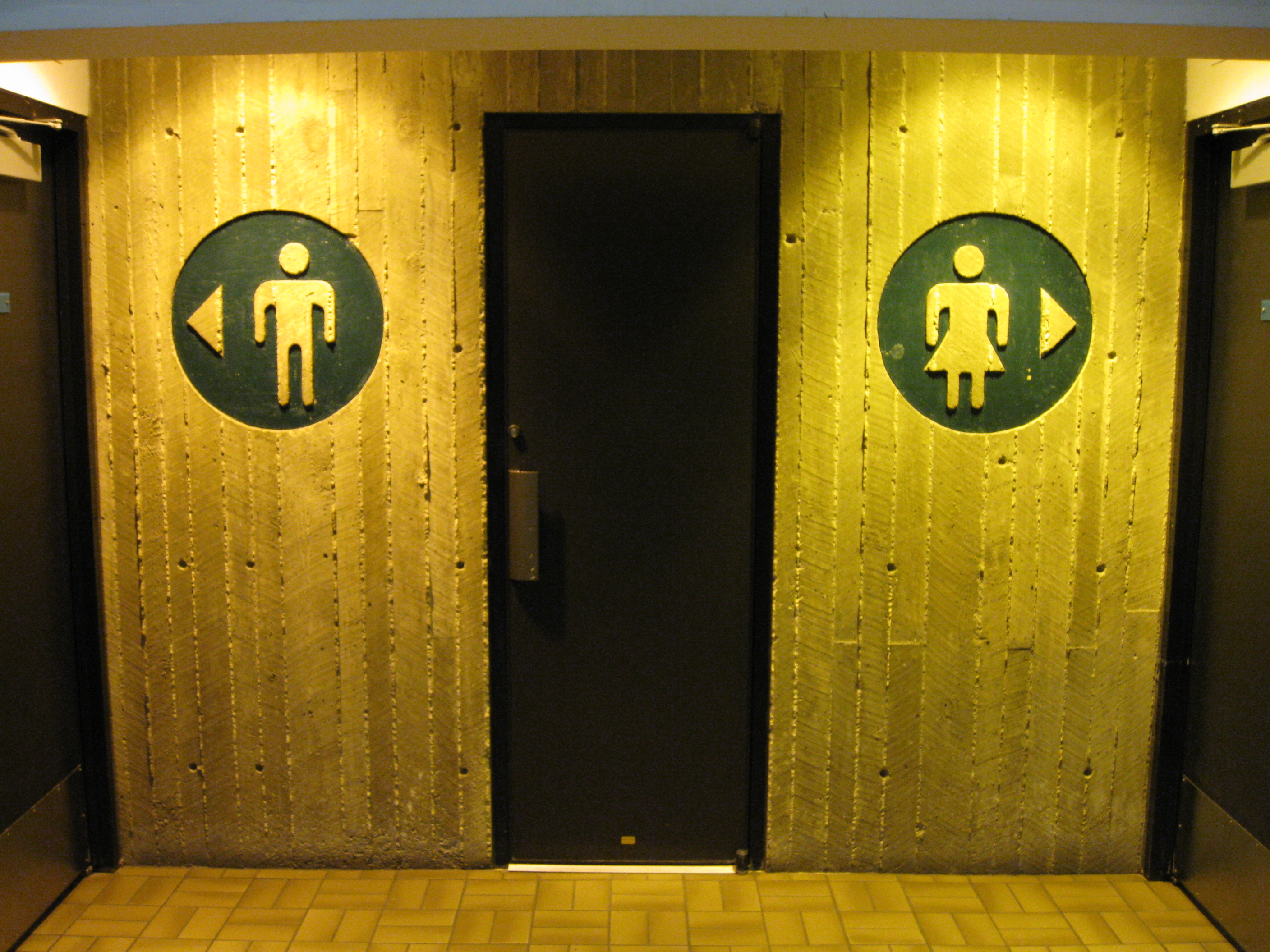 Men on left, women on right. Rest area on Oakland Woods I-90